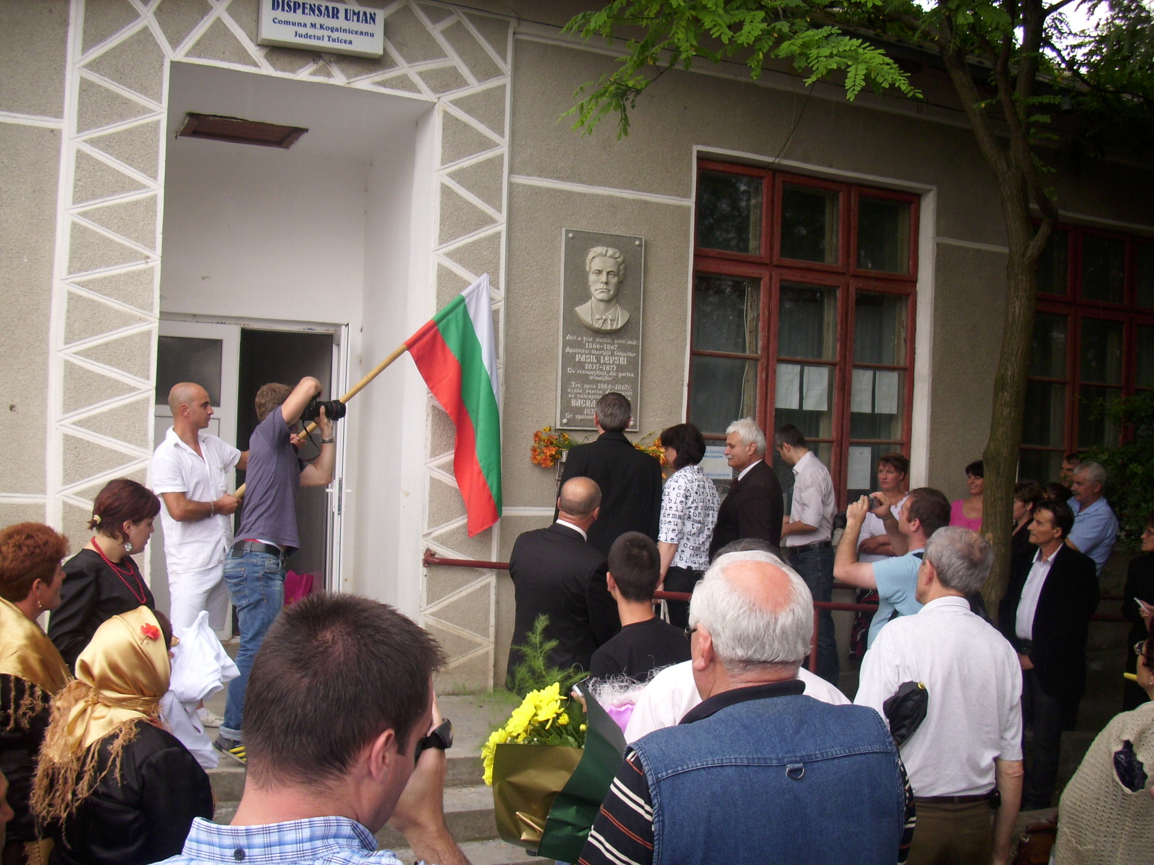 Levski Babadag